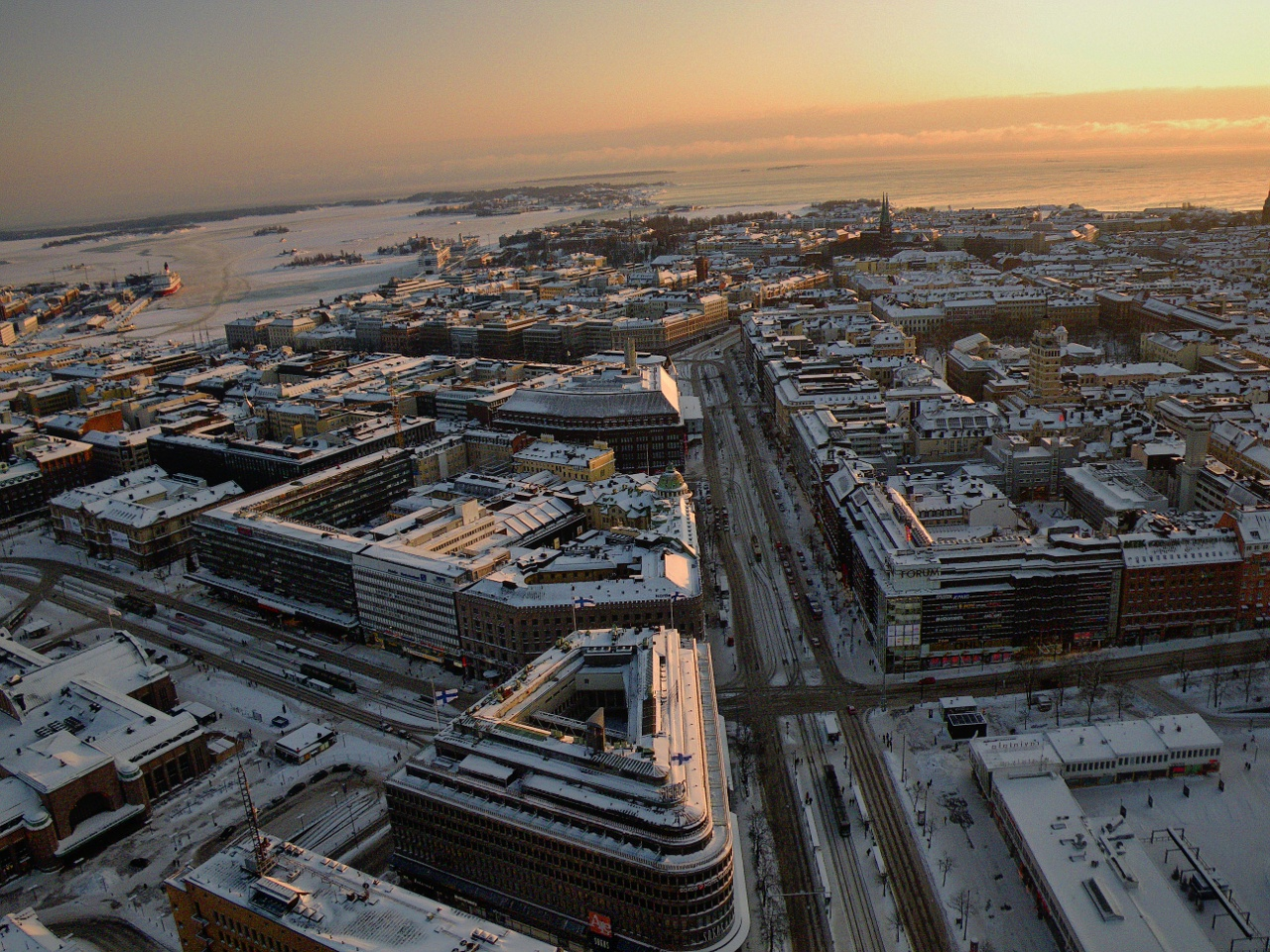 Mannerheimintie in Helsinki from air